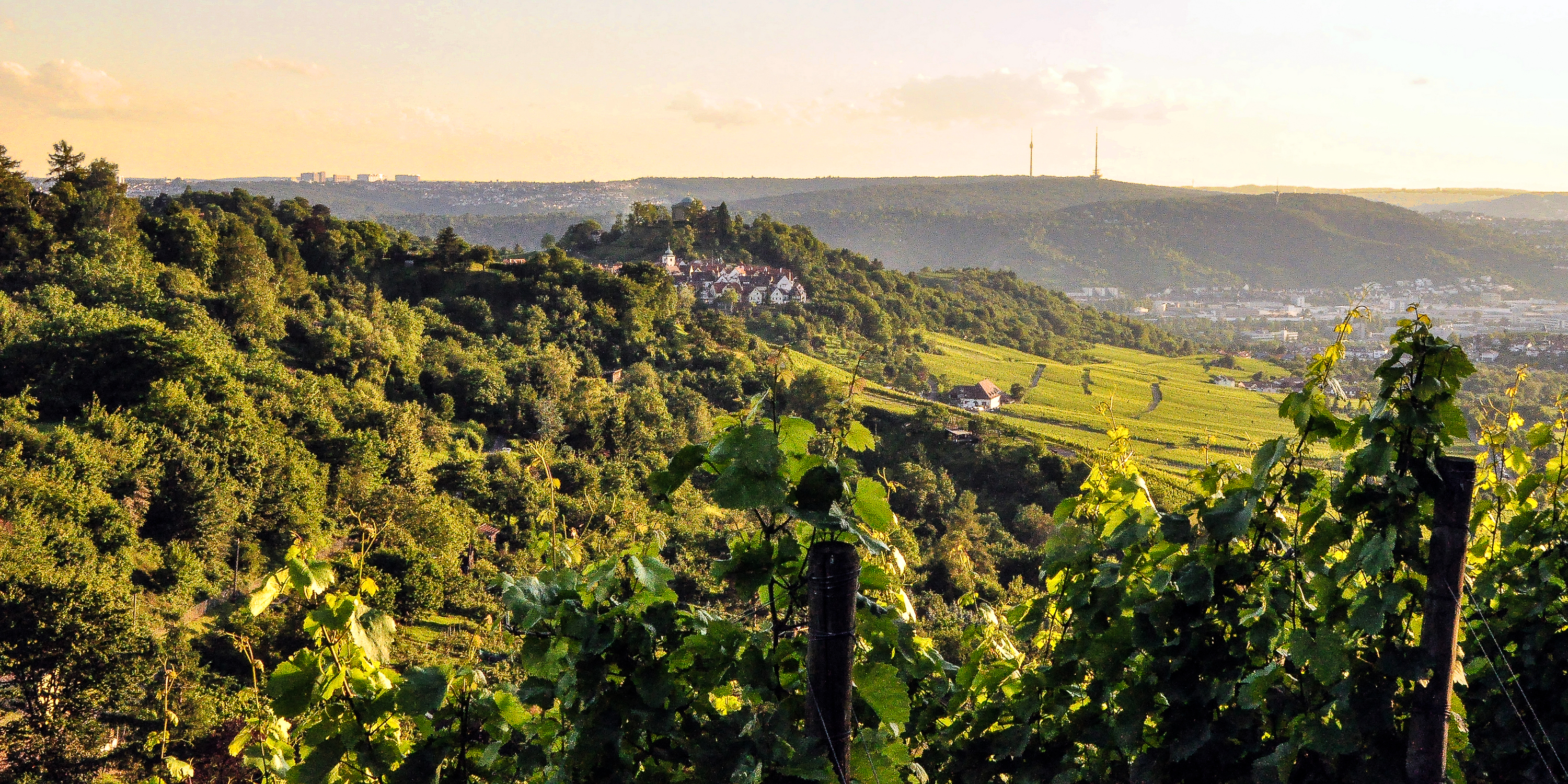 Again you see the typical mix of orchards, vineyards, wood and villages, though in the distance there you see the industrious valley of the Neckar river and the eastern part of Stuttgart. But of couse that does not belong to the protected area...